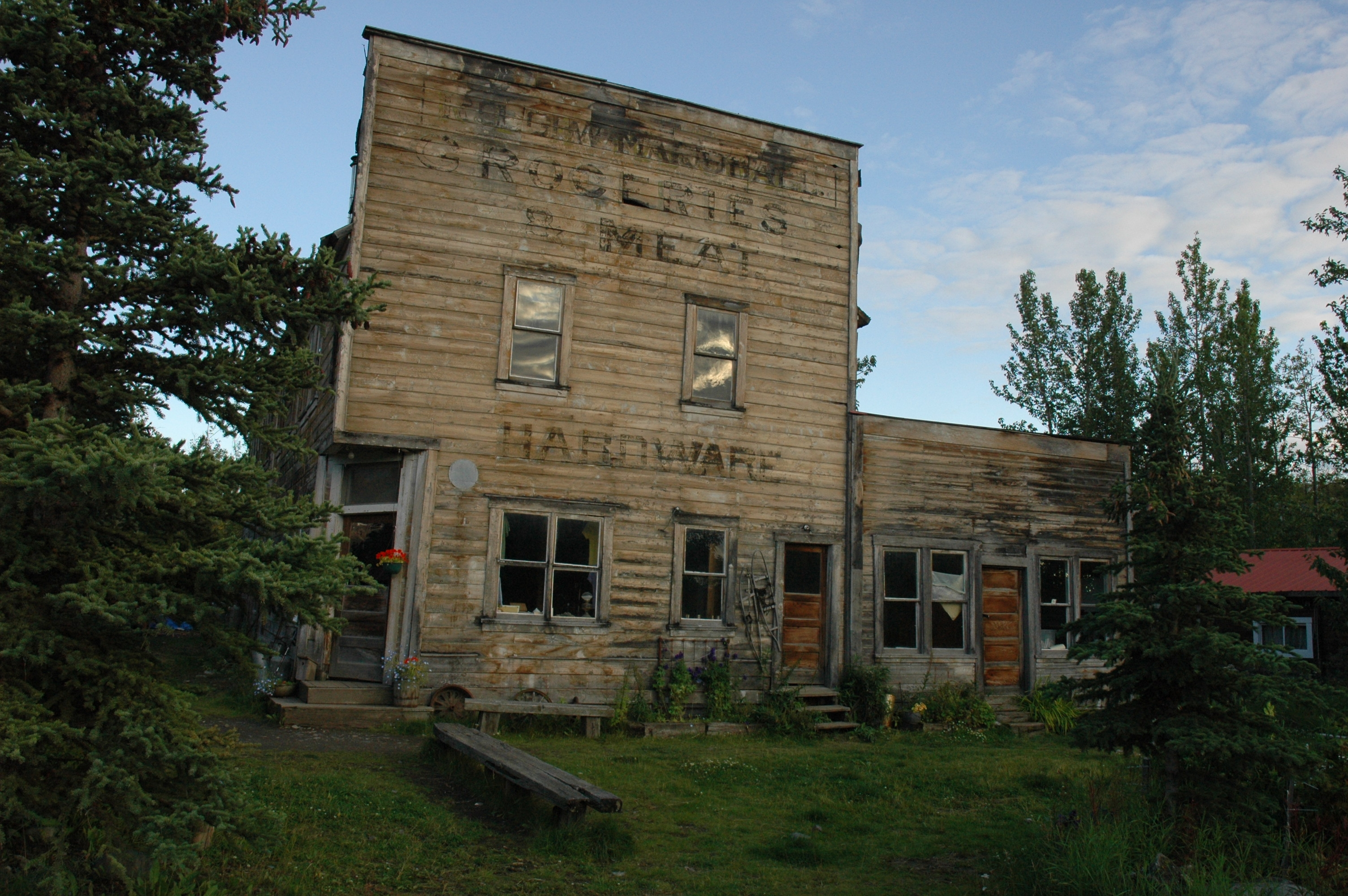 Abandoned stores in McCarthy, Alaska.